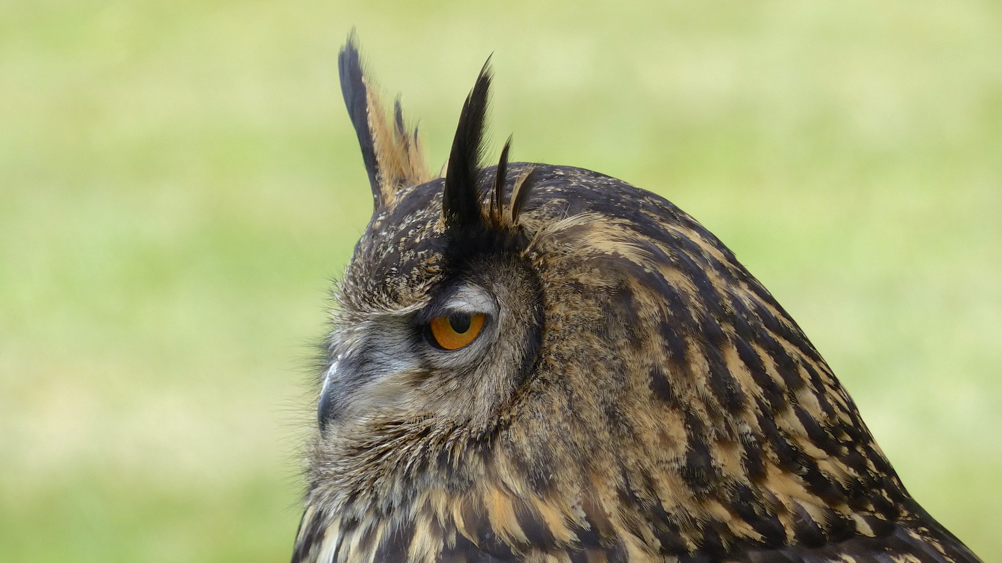 The falconry display at the Poole Town & Country Fair, Upton Country Park